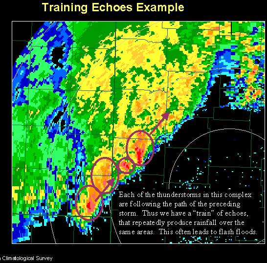 "Training" precipitation. The thunderstorms are aligned in a linear fashion and repeatedly move over the same areas.